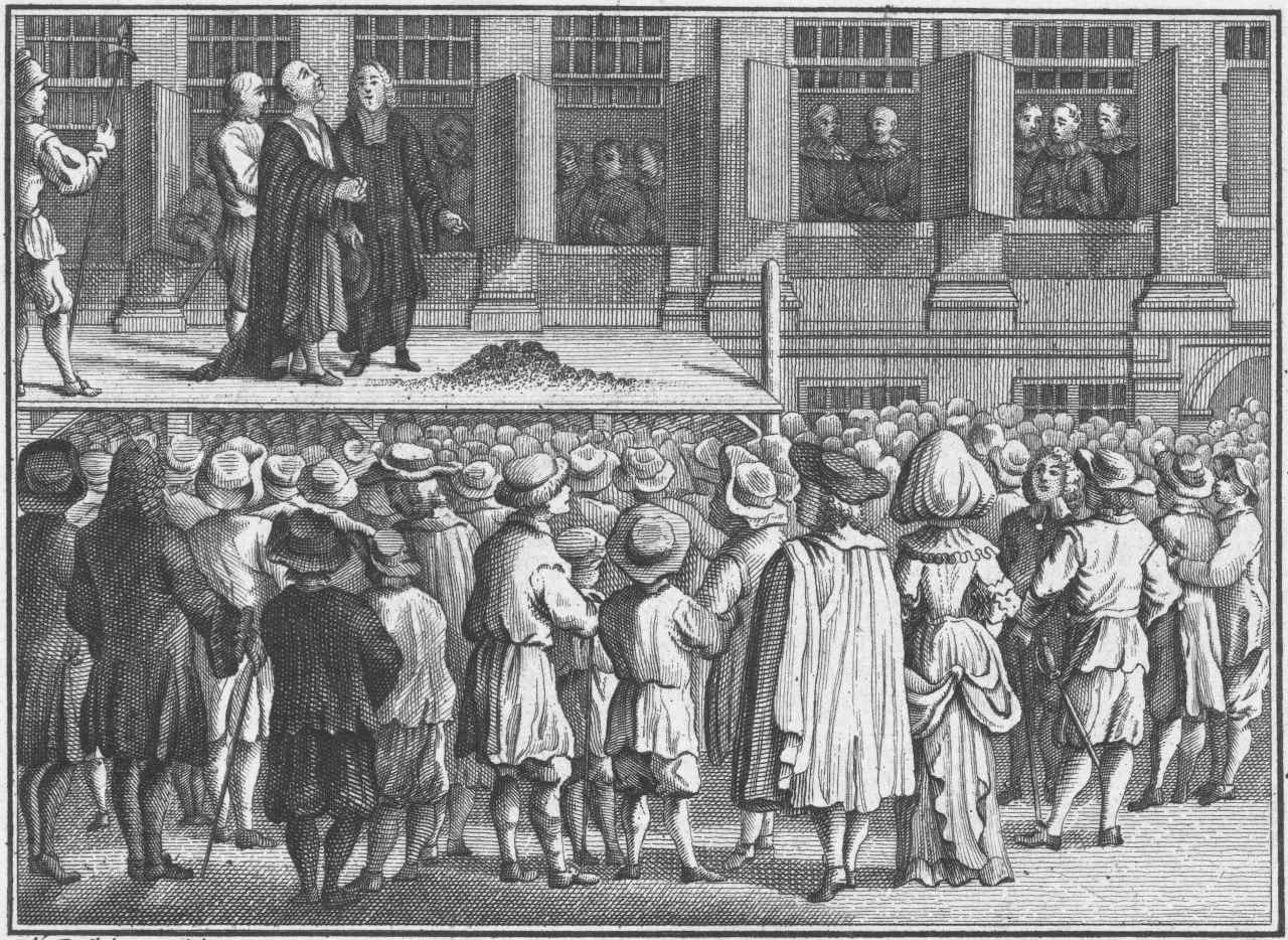 Execution of captain Jan Bont on 5 February 1677 at the Admiralty on the Oudezijds Voorburgwal in Amsterdam, Netherlands. Convicted for abandoning the fleet under admiral Jacob Binckes. Bont standing on the scaffold, about to be decapitated. Etching by Barent de Bakker after a drawing by Hermanus Petrus Schouten.